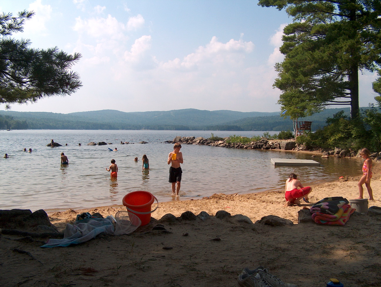 Pleasant Lake. Photo by Ken Gallager, August 10, 2005.